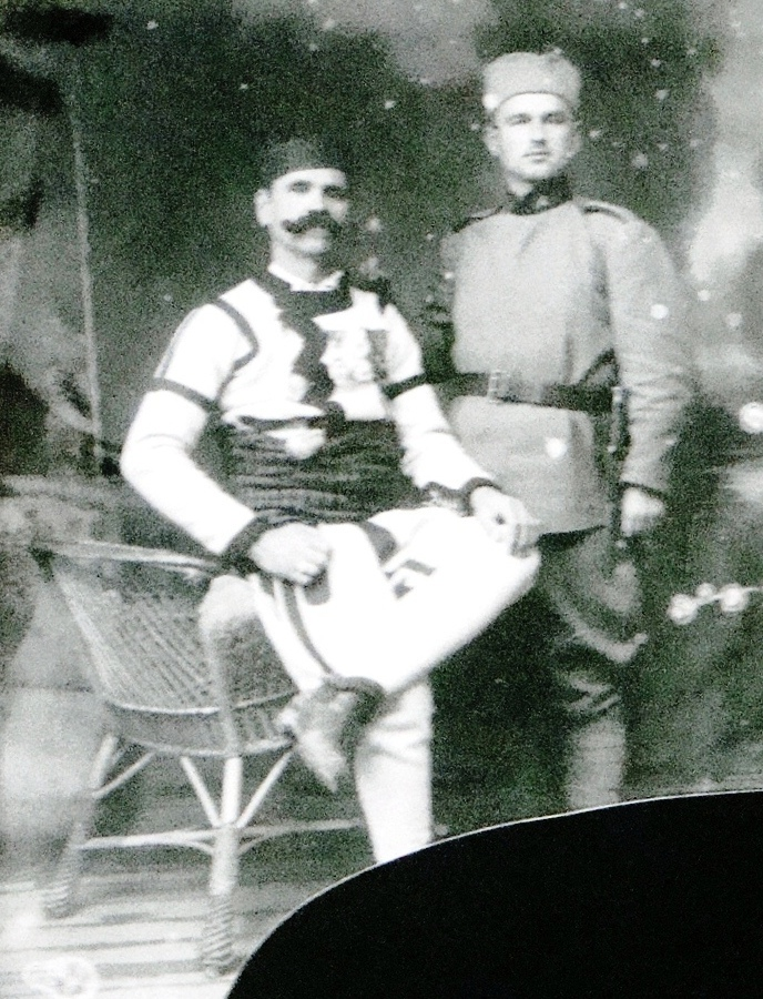 Serbian voivode Nichola, recorded in the studio of the brothers Manaki in Bitola, with his son, who is a soldier. 1912/1913 (Damaged glass plate) This media file is produced by Wikipedian in Residence in Category:Wikipedian in Residence at DARM in 2016.